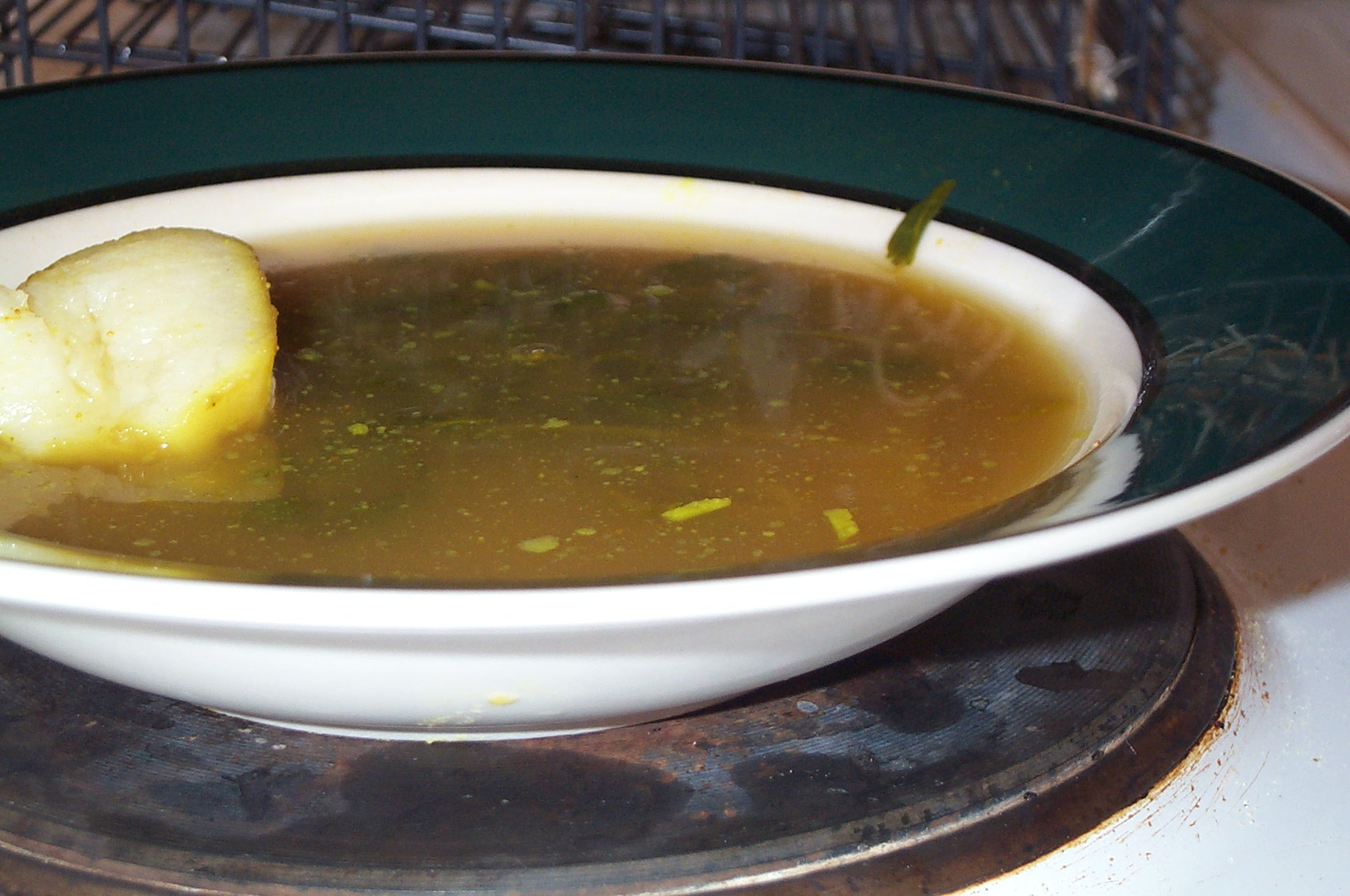 From the ever reliable tiki's. Apparently, chicken is a vegetable in Yemen.